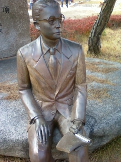 Yiyuksa's bronze statue.